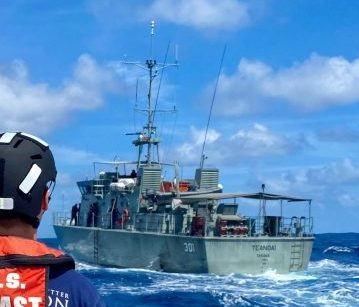 USCG sailors look at the RKS Teanoai, during a joint exercise